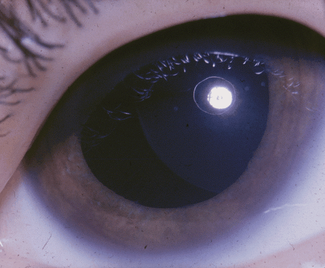 The patient was a six-year-old female with dislocated lenses. The lenses were dislocated laterally and posteriorly ([1]). The patient was considered to be a dwarf ([2]). The presumptive diagnosis was Marchesani syndrome. At eight years of age, the vision in the right eye was 20/70 and the left eye was 20/200. There appeared to be spherophakia and the dislocated lenses were again noted. At 10-years of age, it was apparent that the patient was extremely short in stature.